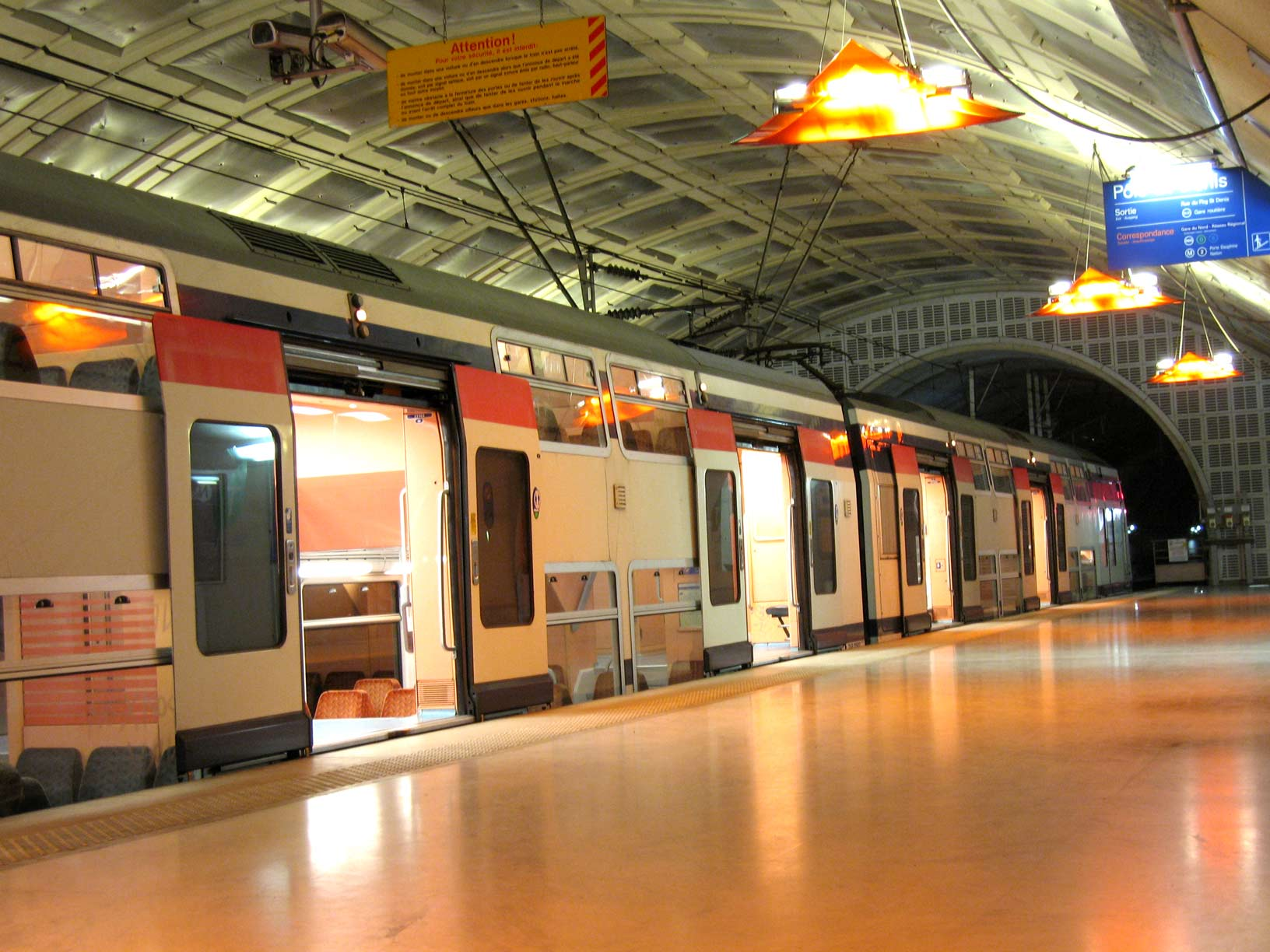 RER line E , Magenta Station, Paris, France